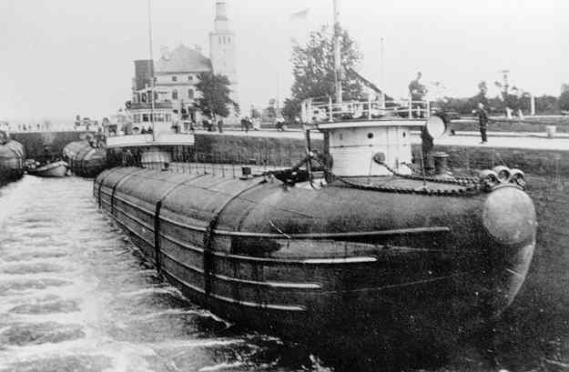 Thomas Wilson in Weitzol Locks, Sault Ste. Marie, ca. 1901, with two "consort barges" in background, which she could tow. She sank in 1902 after being struck by the George Hadley just outside of Duluth harbor.